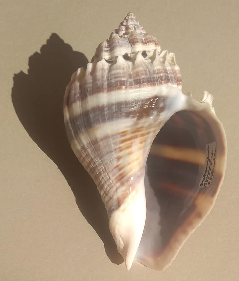 The underside of Melongena corona (Gmelin, 1791)[1]; from Florida to N. E. Mexico - Gulf of Mexico[2]. ABBOTT, R. Tucker; DANCE, S. Peter (1982). Compendium of Seashells. A color Guide to More than 4.200 of the World's Marine Shells. New York: E. P. Dutton. p. 175. 412 pp. ISBN 0-525-93269-0